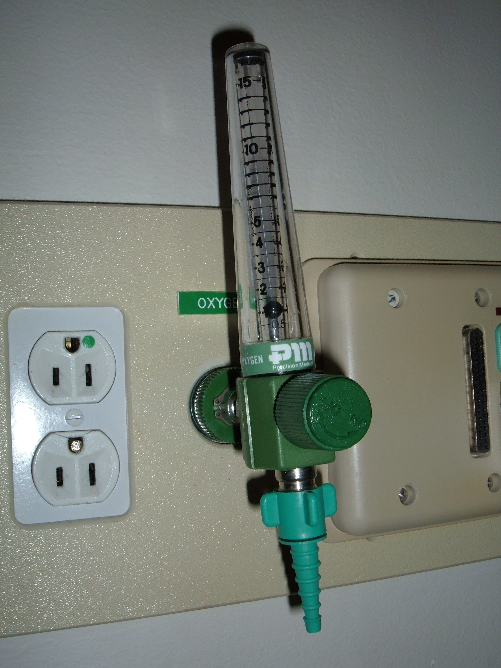 A wall-mounted oxygen regulator valve located behind the head of a hospital bed in Daly City, California. Tubes can be attached to this valve to administer oxygen to a patient.